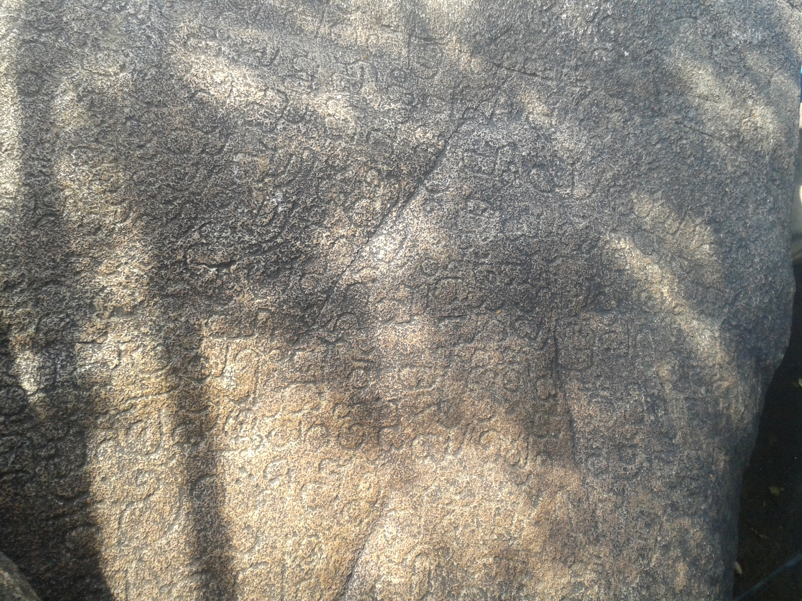 Rajulamandagiri, Near Pattikonda, Kurnool dist, Andhra Pradesh.